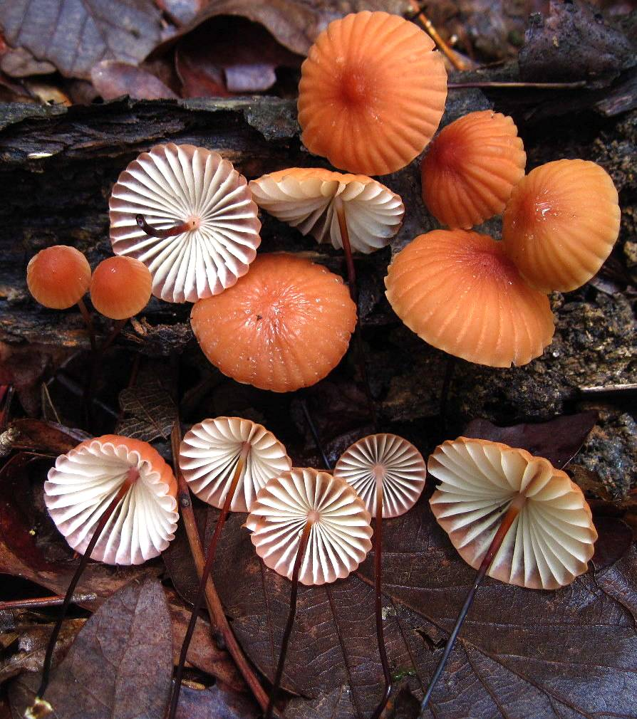 Fruit bodies of the agaric fungus Marasmius fulvoferrugineus Gilliam. Specimens collected in Orange Co., North Carolina, USA.